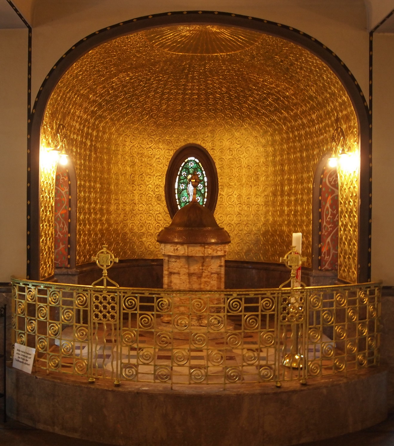 Baptistry in the Luther Church at Wiesbaden, Hesse, Germany